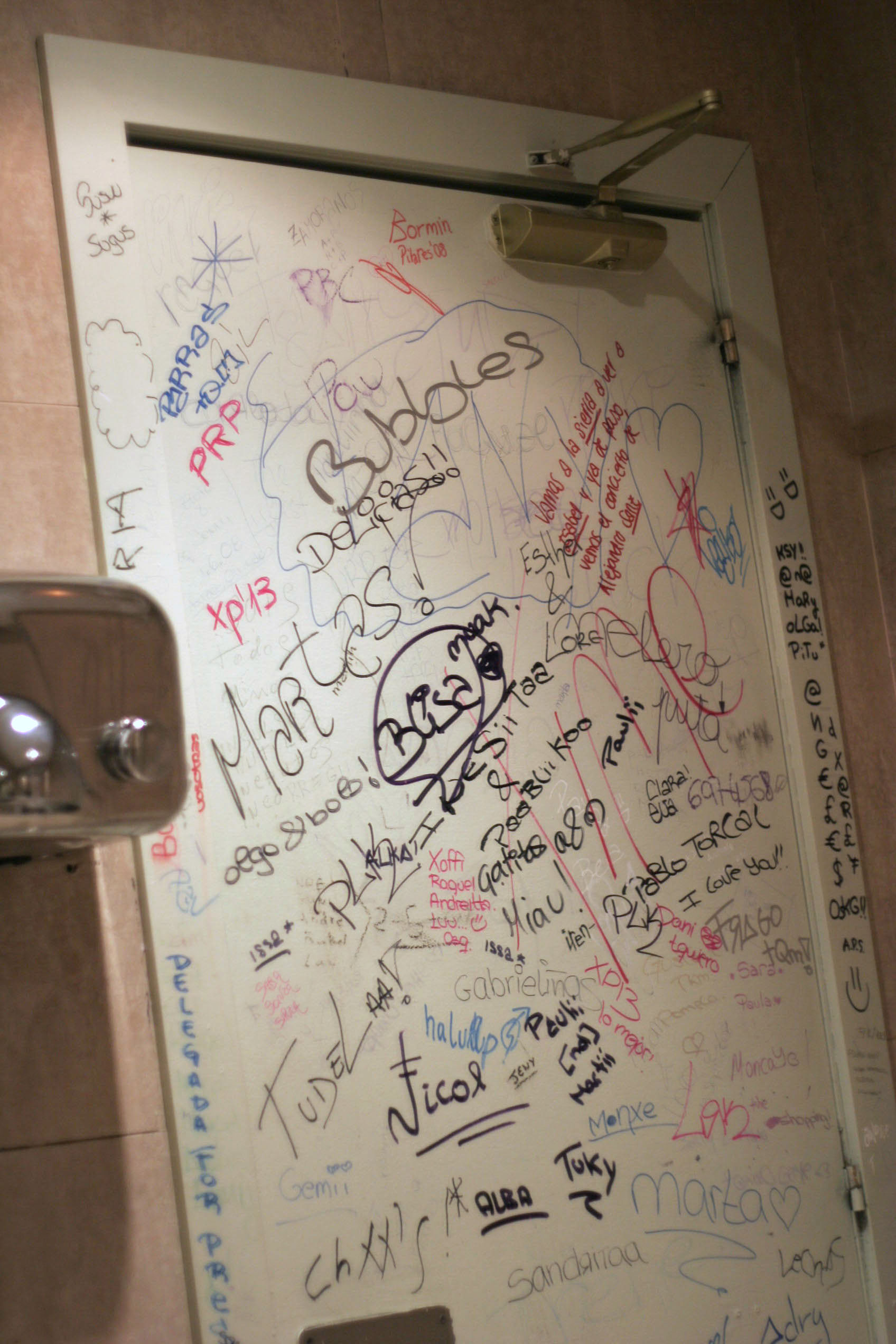 toilet door in Zaragoza, Spain